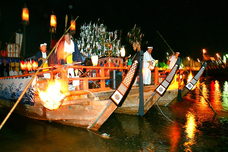 kangensai at jigozenjinja